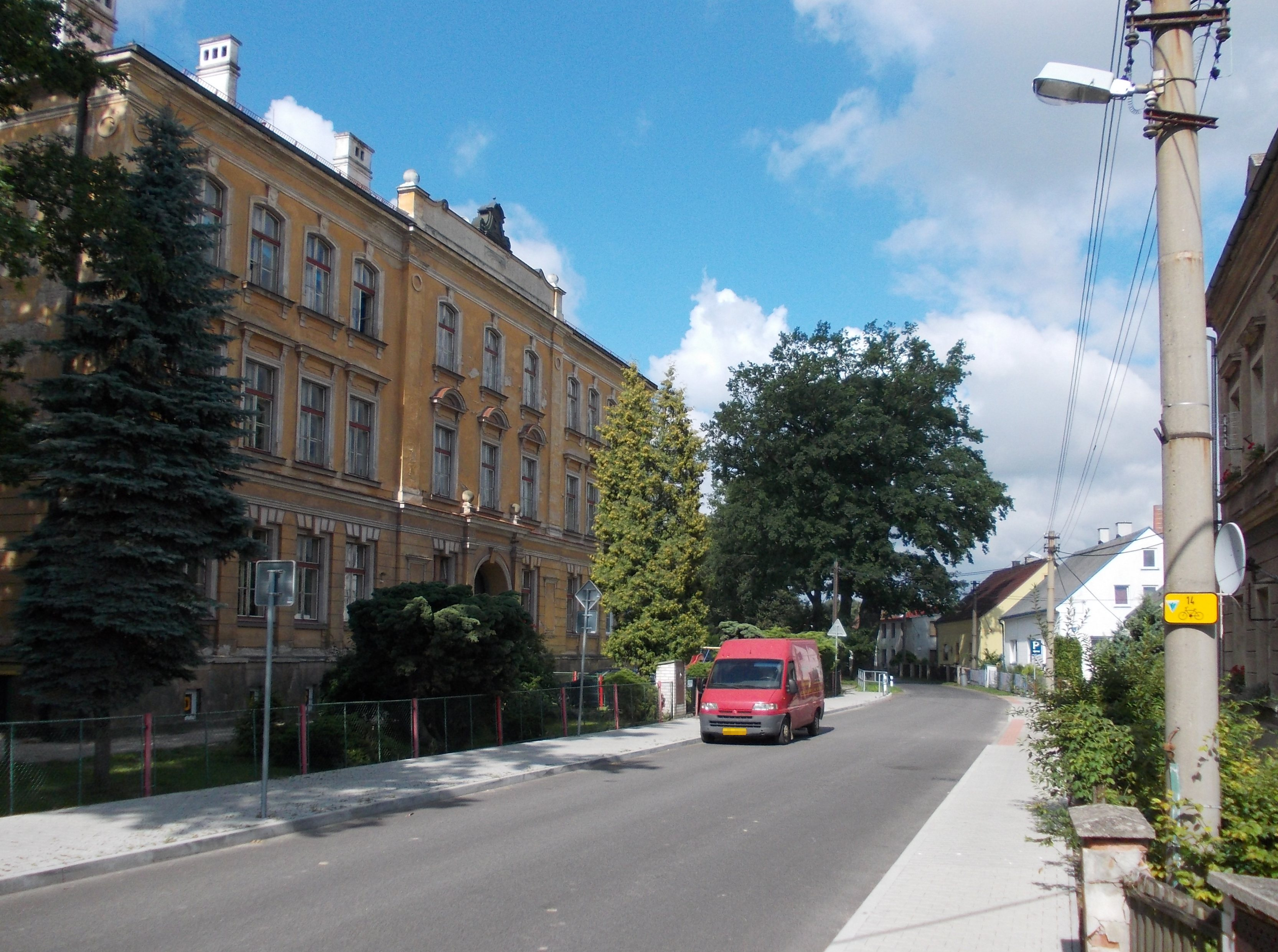 School in Loučná (Hrádek nad Nisou)